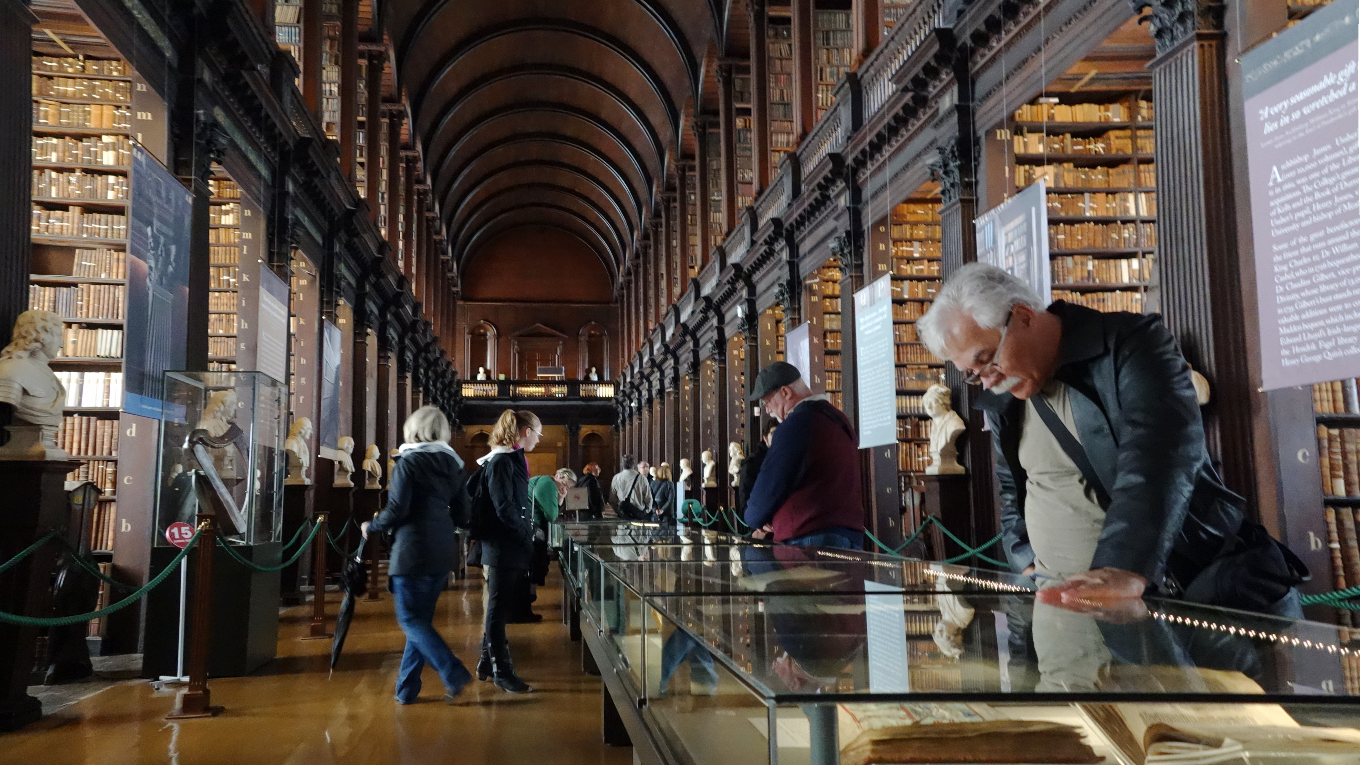 The long room at Trinity College Library in Dublin, Ireland